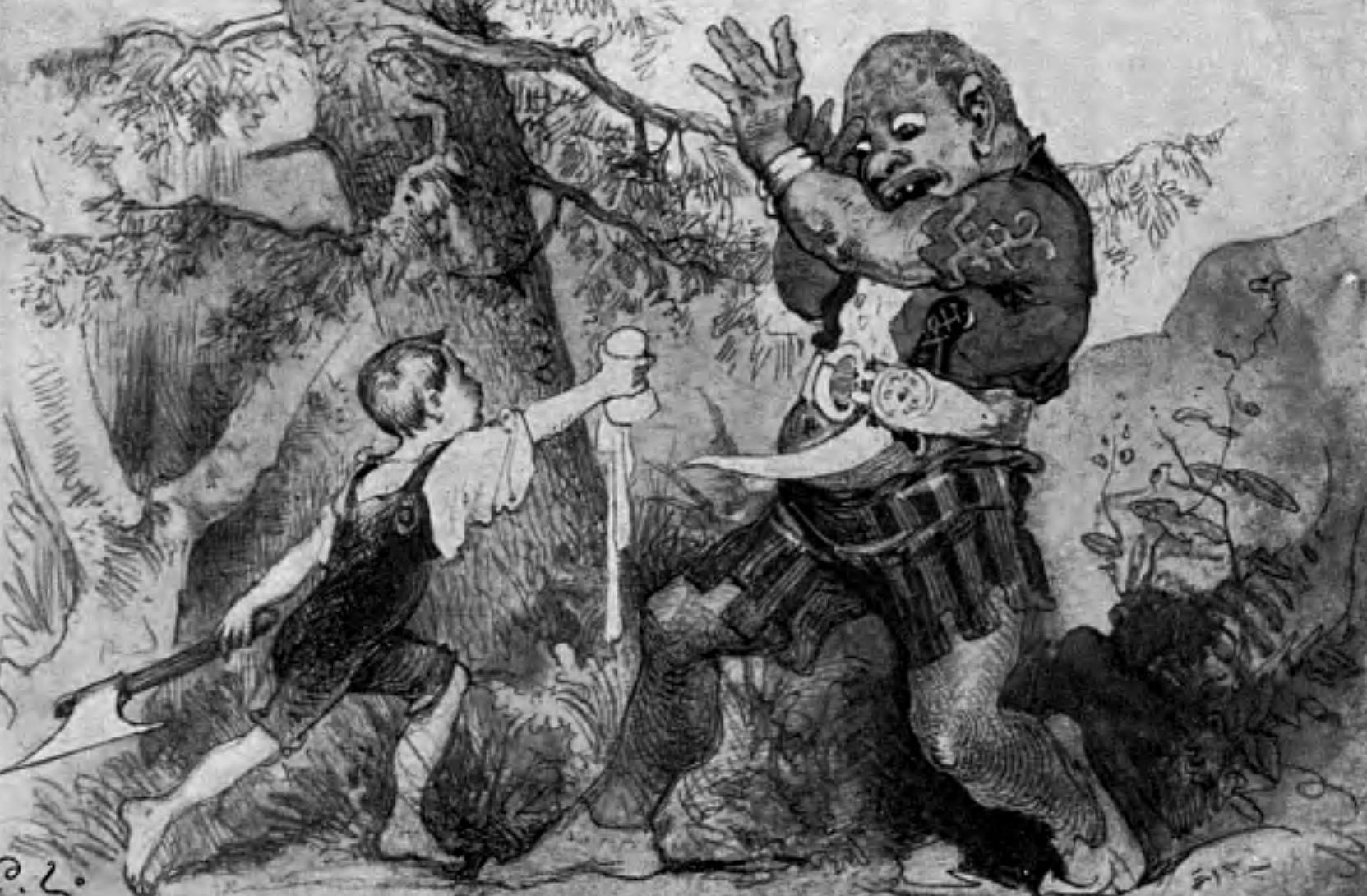 Illustration by Carl Larsson of the book "Folksagor" by Asbjörnsen and Moe, Stockholm 1927